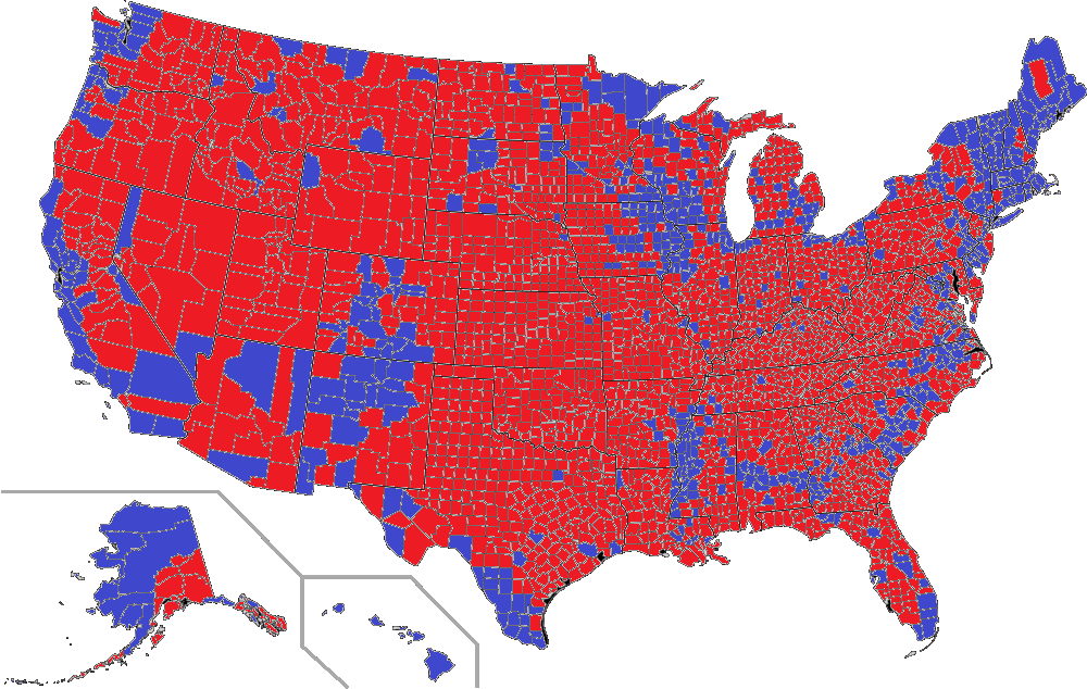 A map of the United States by county, on the 2012 presidential election county results